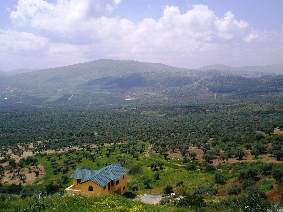 Cities in Israel